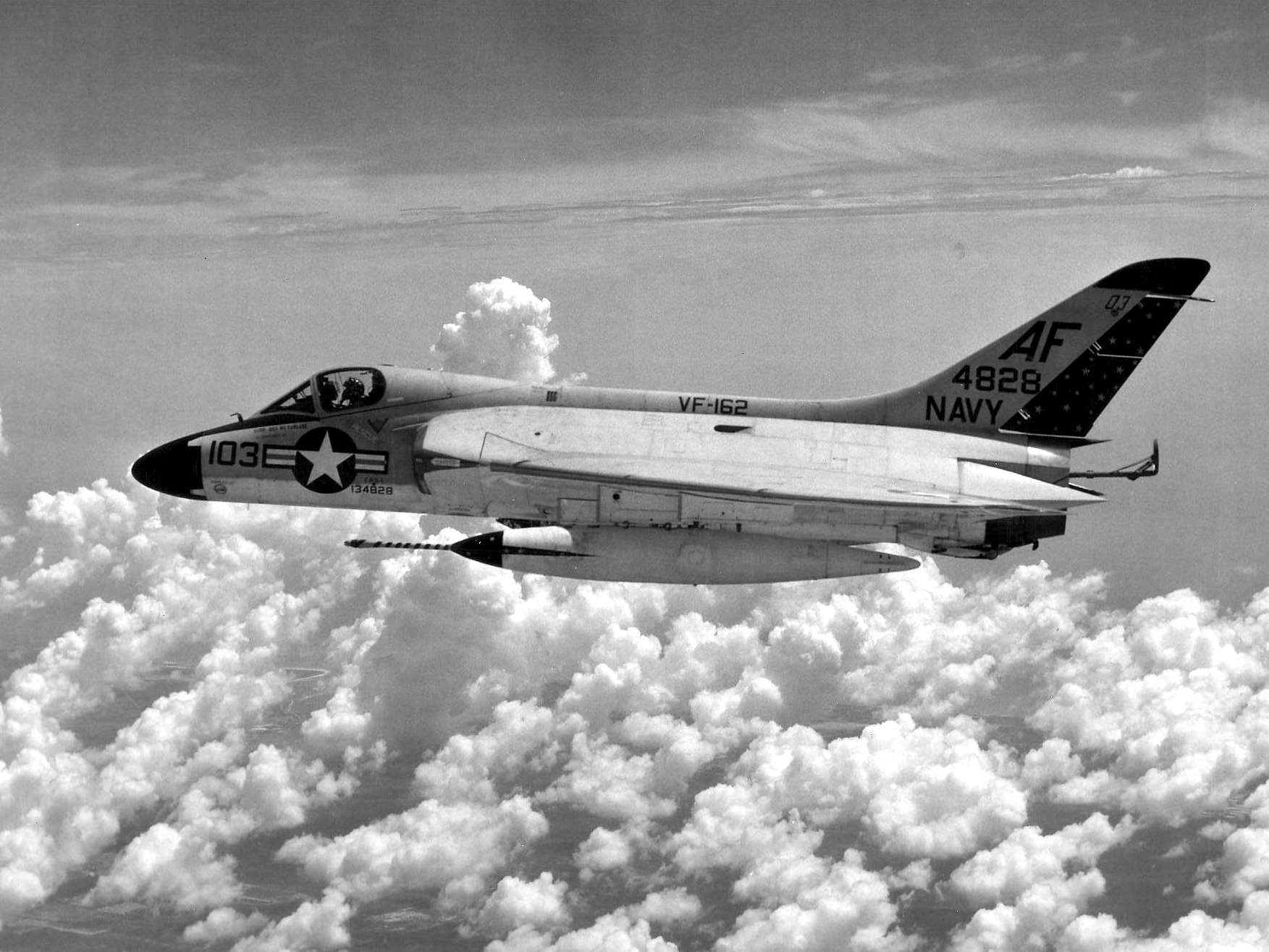 A U.S. Navy Douglas F4D-1 Skyray (BuNo 134828) from Fighter Squadron VF-162 "Hunters" in flight. VF-162 was assigned to Carrier Air Group 6 (CVG-6) aboard the aircraft carrier USS Intrepid (CVA-11) for a deployment to the Mediterranean Sea from 3 August 1961 to 1 March 1962. Note the in-flight refueling probe on the left drop tank.